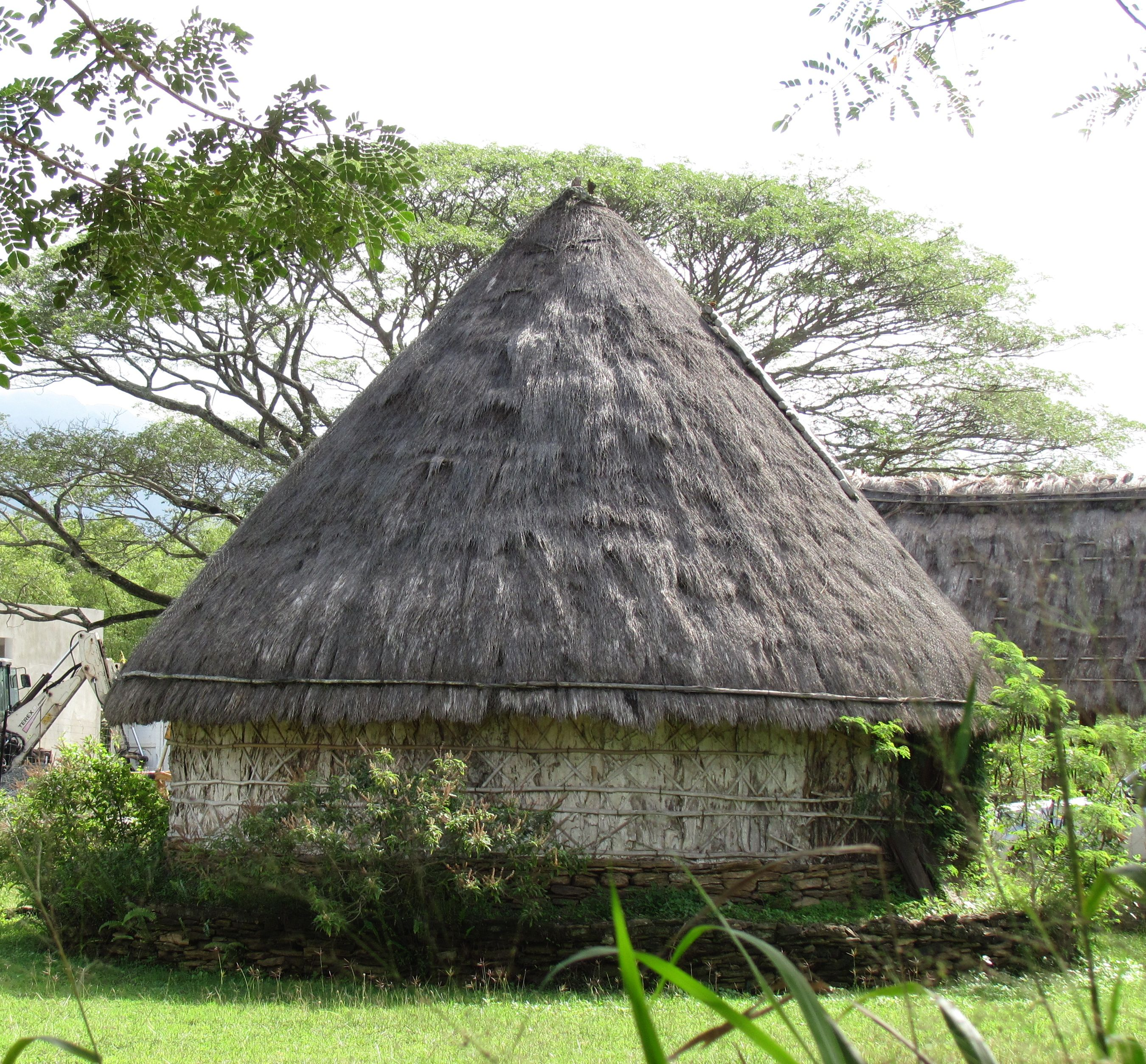 Cultural Center, Koné, New Caledonia